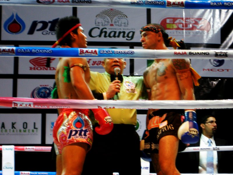 Joe Schilling faces off with Kaoklai Kaennorsing at the M1 Grand USA vs. Thailand Muay Thai Championships at Club Nokia in LA, October 21, 2011.